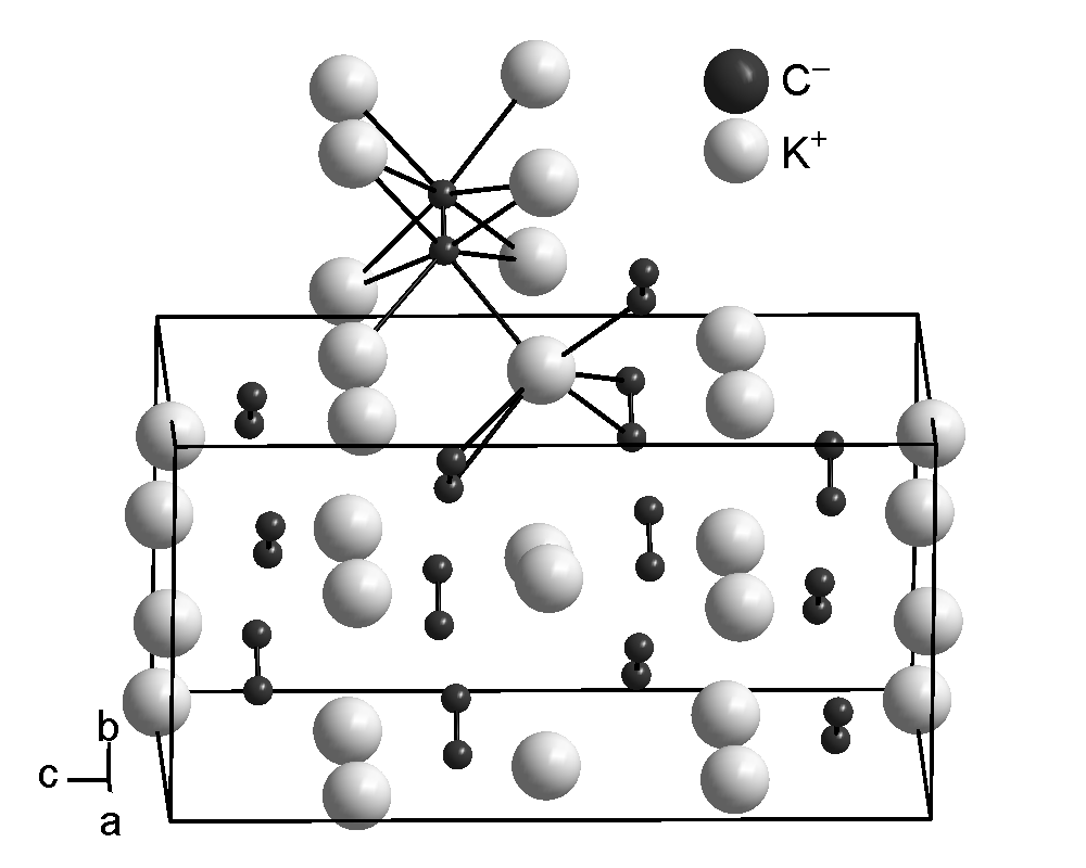 Unit cell of potassium carbide, K2C2. Created using Diamond 4. Structure data from